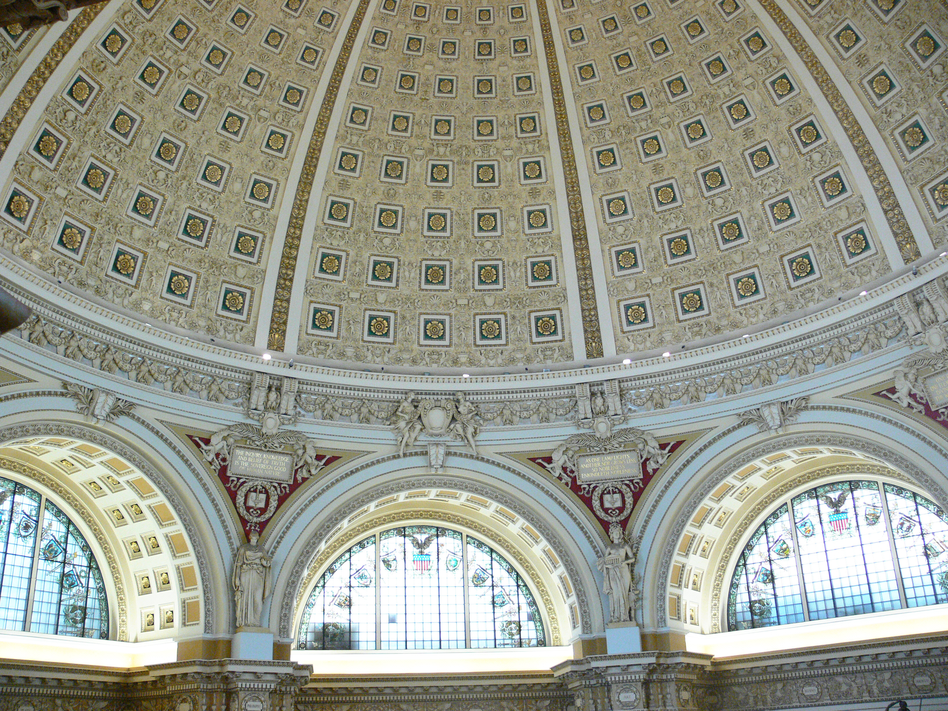 The dome of the Main Reading Room, Library of Congress (Jefferson Building), Washington, D.C.